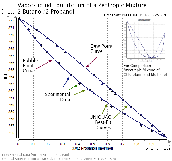 VLE diagram of a zeotropic mixture